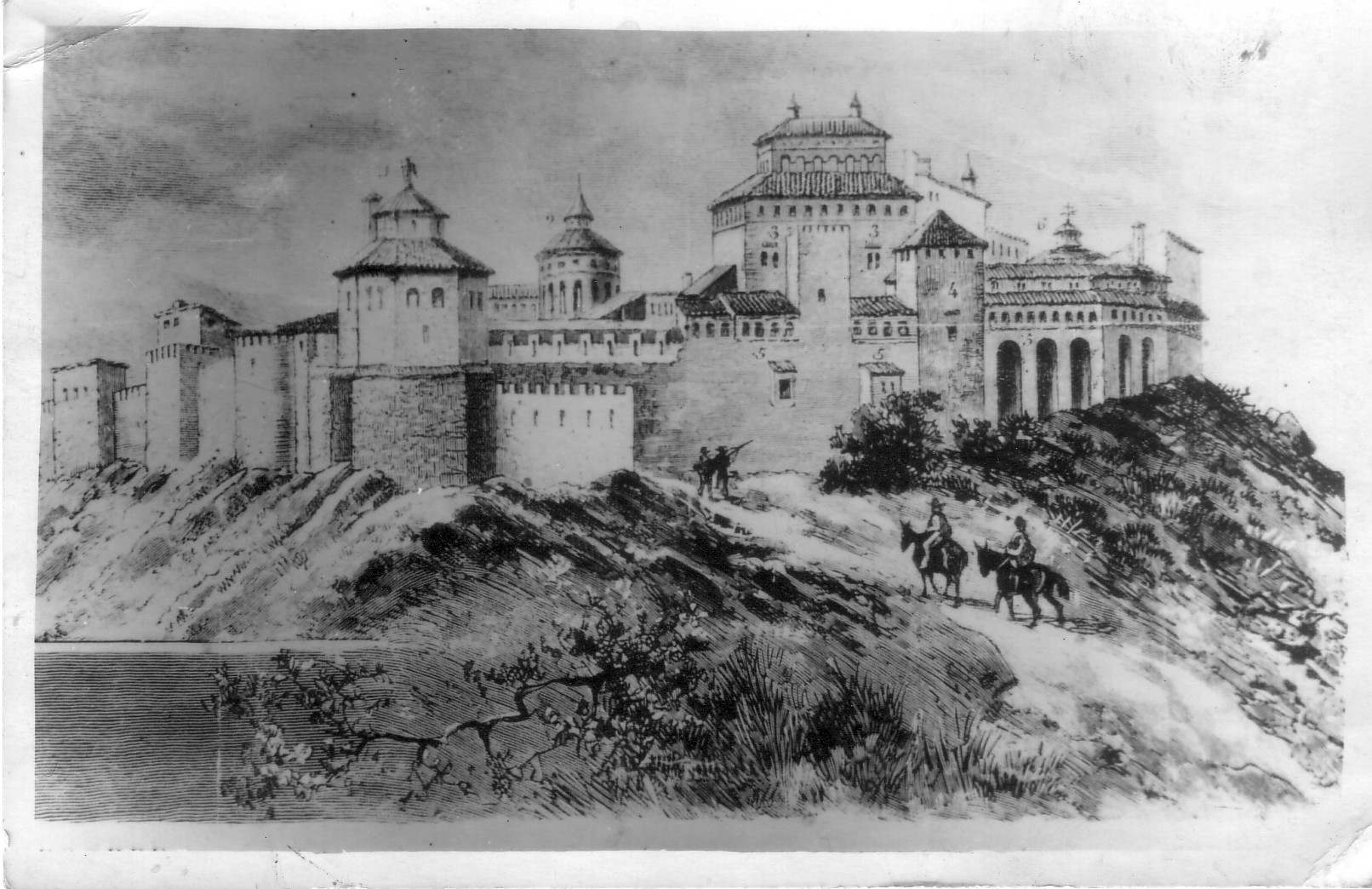 Castle Alcázar of Segorbe. Preserved image of the medieval fortress. Legend: "1. Torre del Ángel (Tower of the Angel) 2. Cisternas (Cisterns) 3. Habitaciones Reales (Royal Chambers) 4. Gabinete de mármol blanco (Cabinet of white marble) 5. Galerías (Galleries) 6. Capilla dedicada a Nuestra Señora de la Leche (Chapel dedicated to Our Lady of la Leche)"